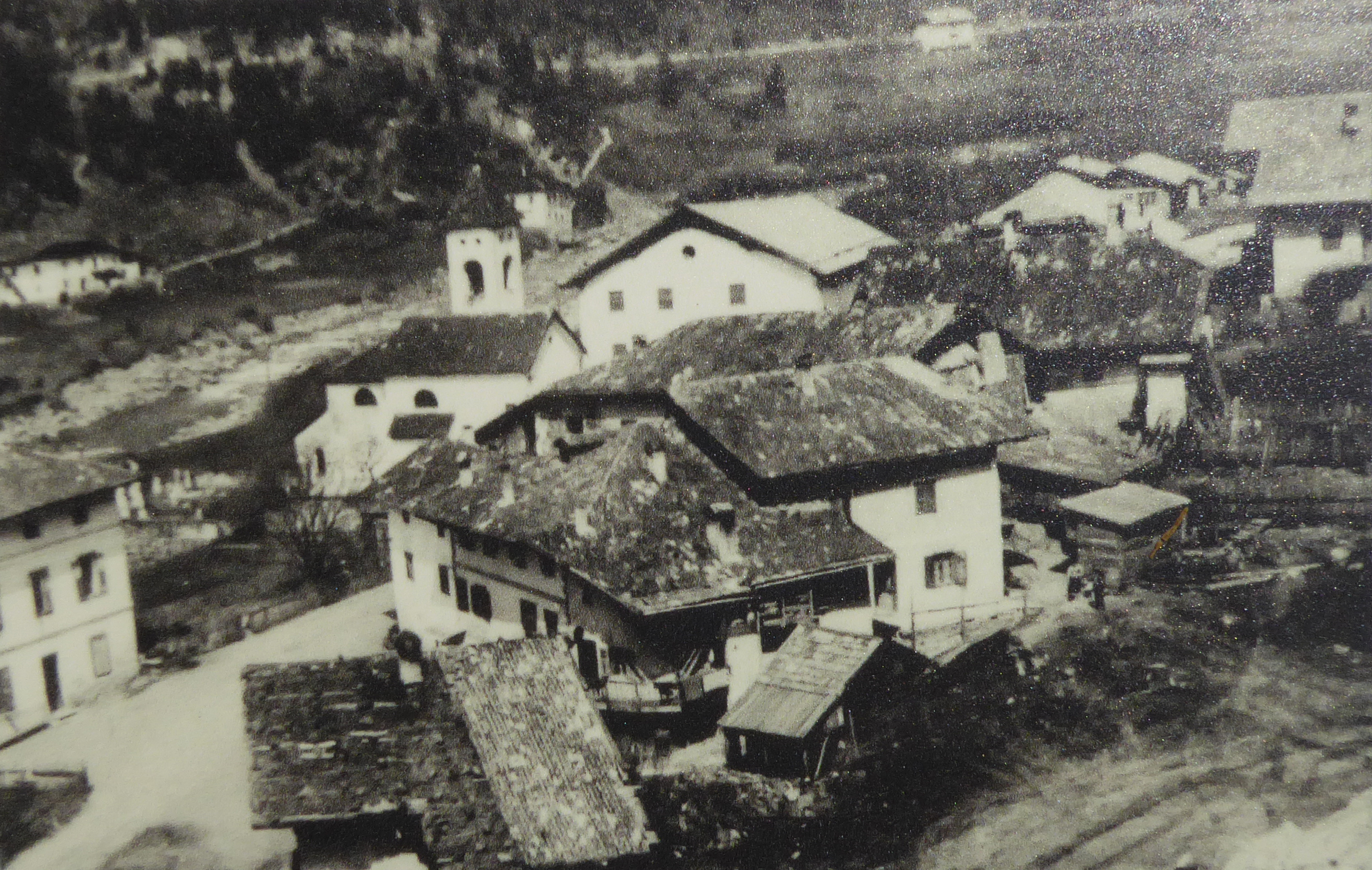 The old town of Stramentizzo, demolished and submerged by the lake in 1955-56